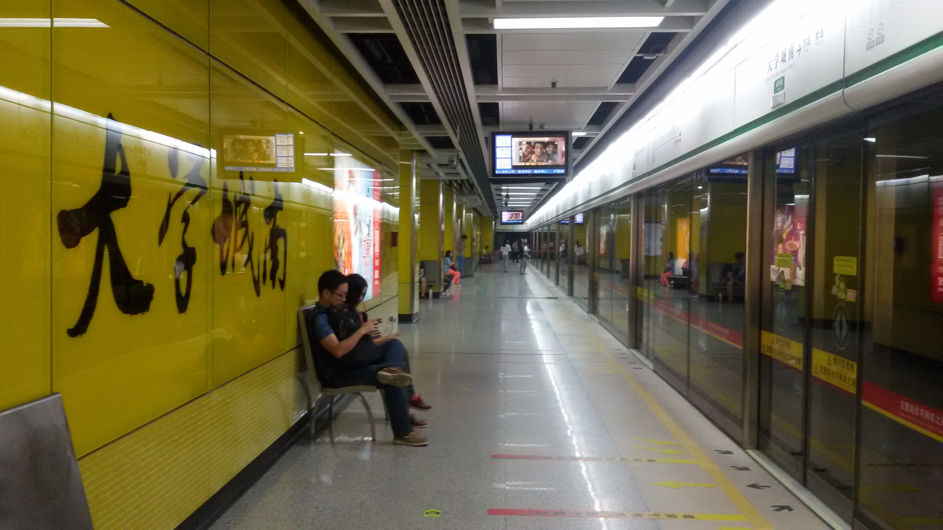 Station Platform (Towards Nansha Passenger Port) at Line 4 for Higher Education Mega Center South Station in Guangzhou Metro.